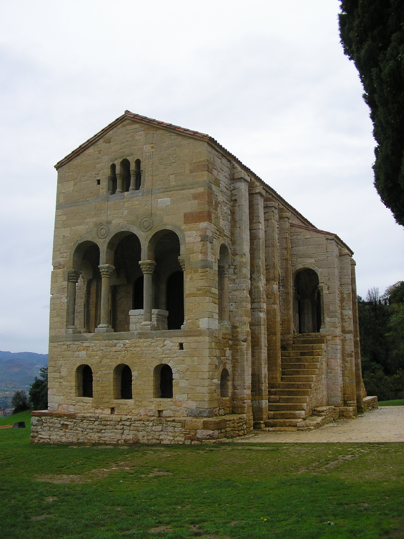 Santa María del Naranco.